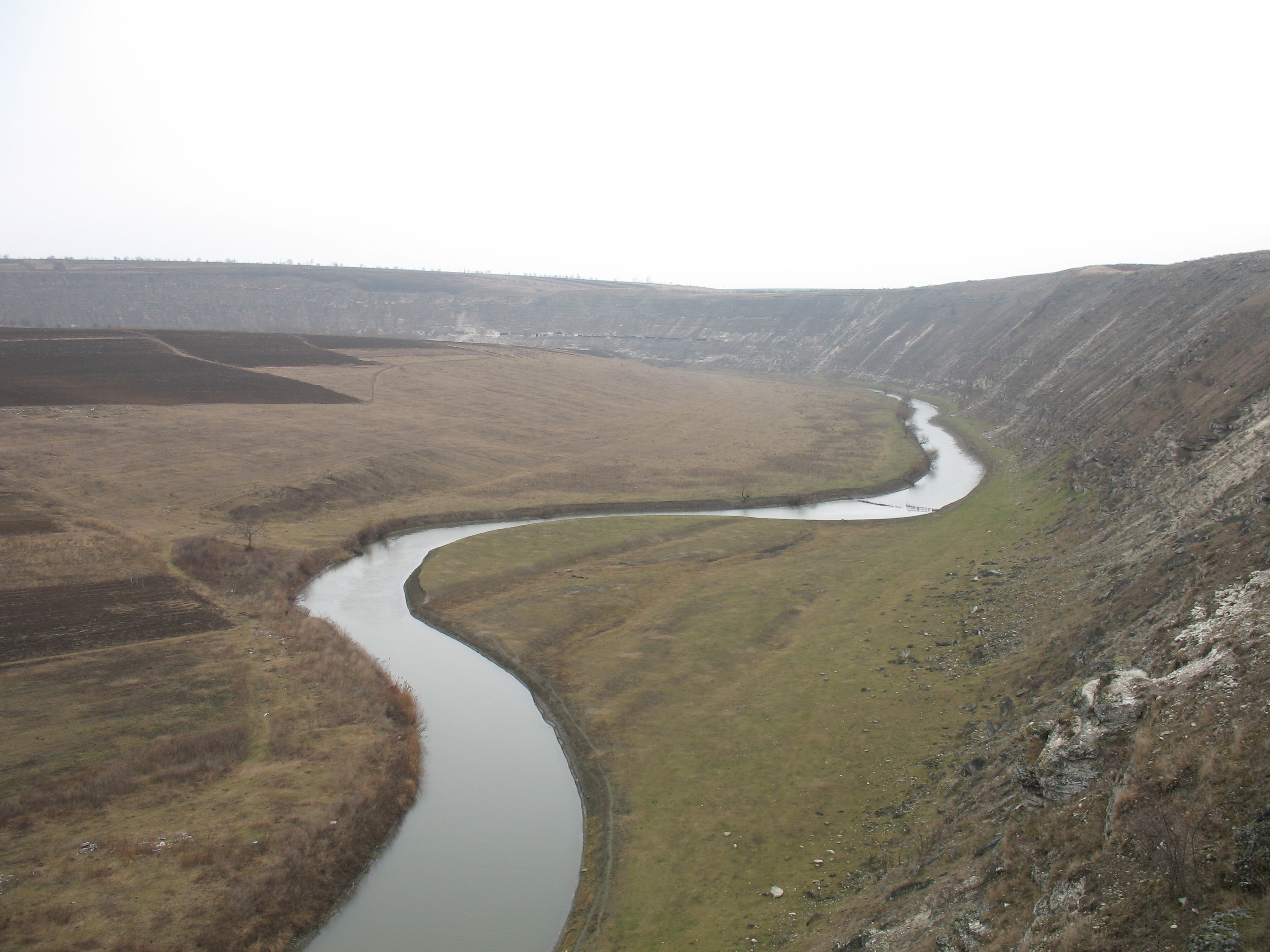 Reut river near Old Orhei (Orheiul Vechi), Orhei country, Moldova